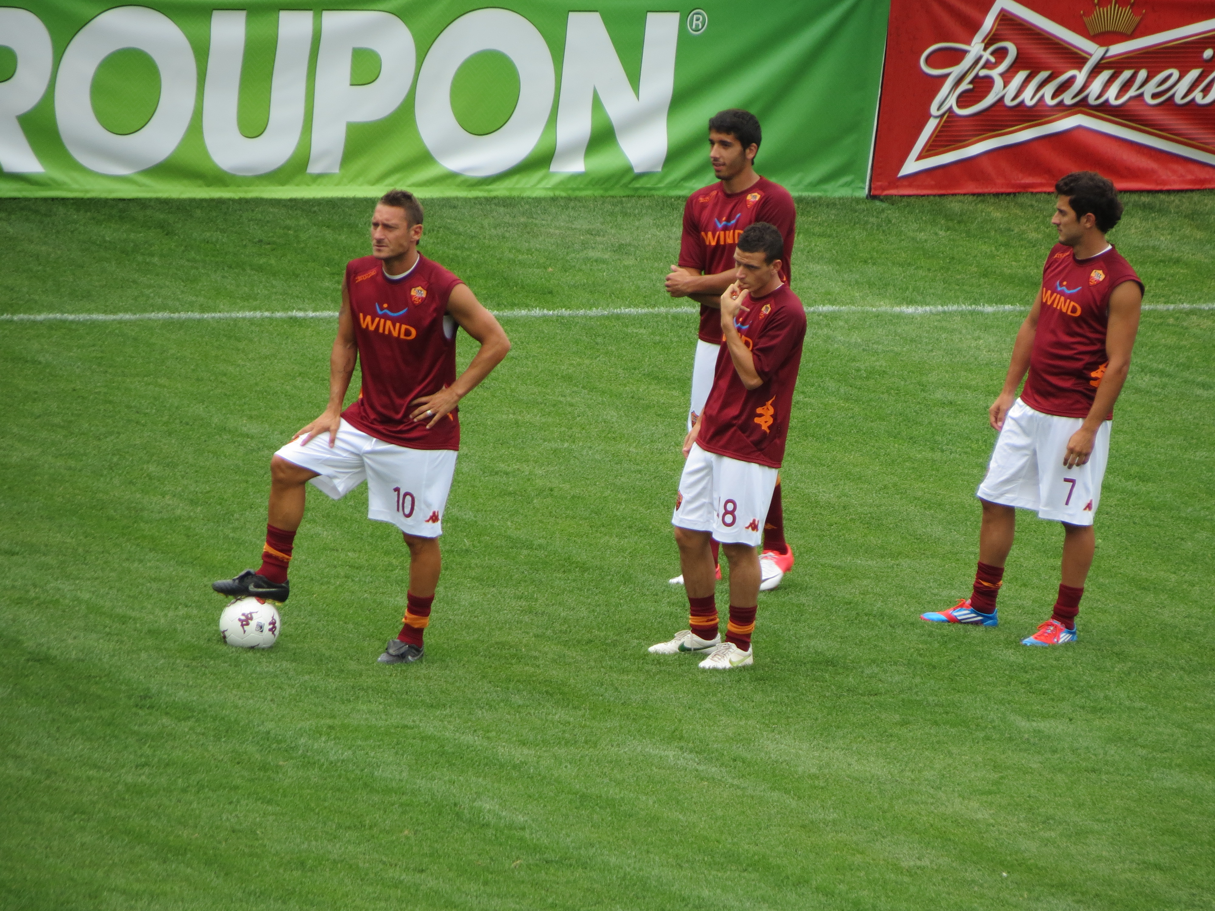 Francesco Totti (10) pauses during training, flanked by Jose Angel (background) and Marquinho (7).